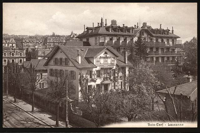 Picture from the Clinique Bois Cerf (8)